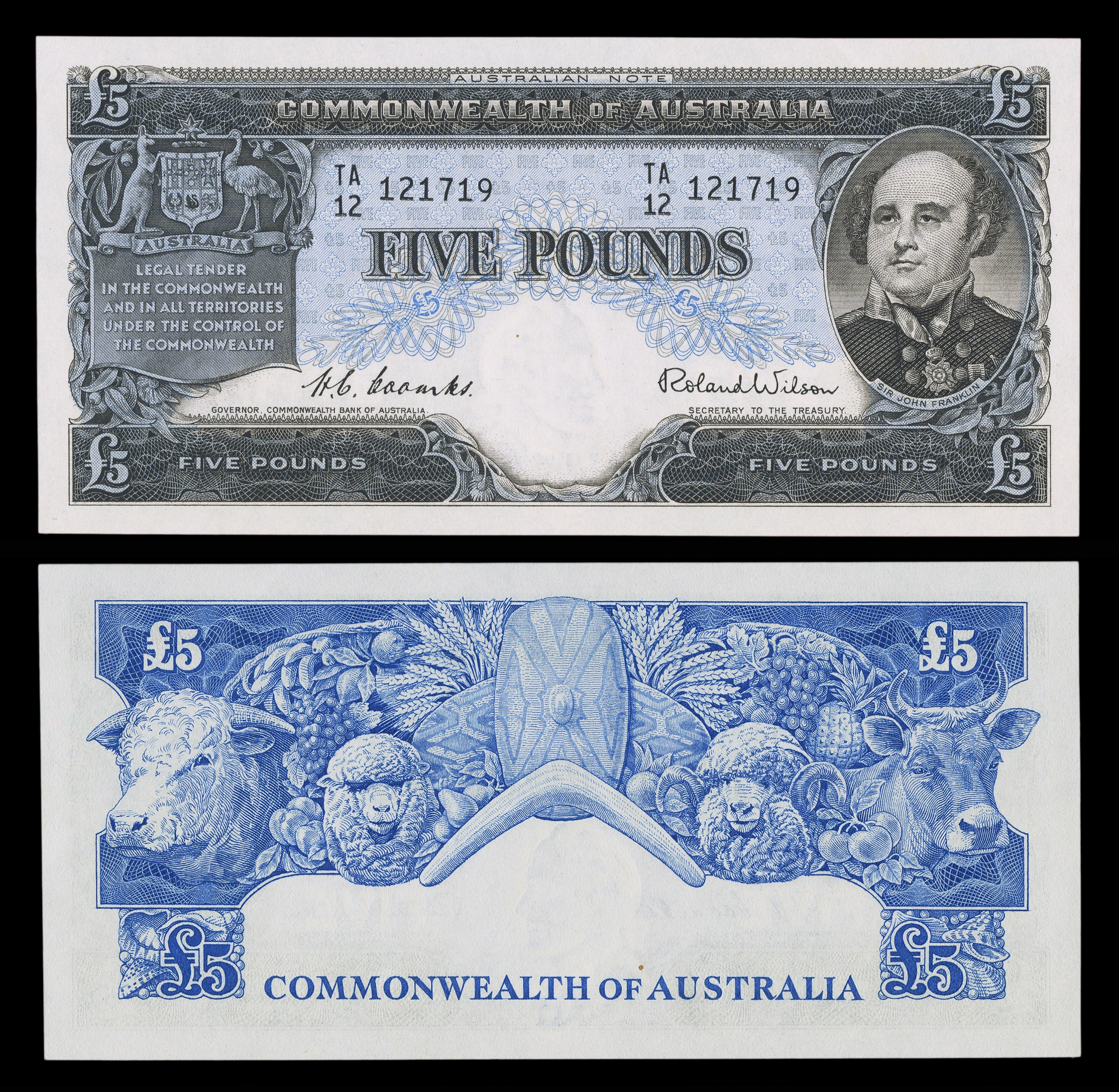 Commonwealth Bank of Australia five-pound note (1954)(3506-14845)